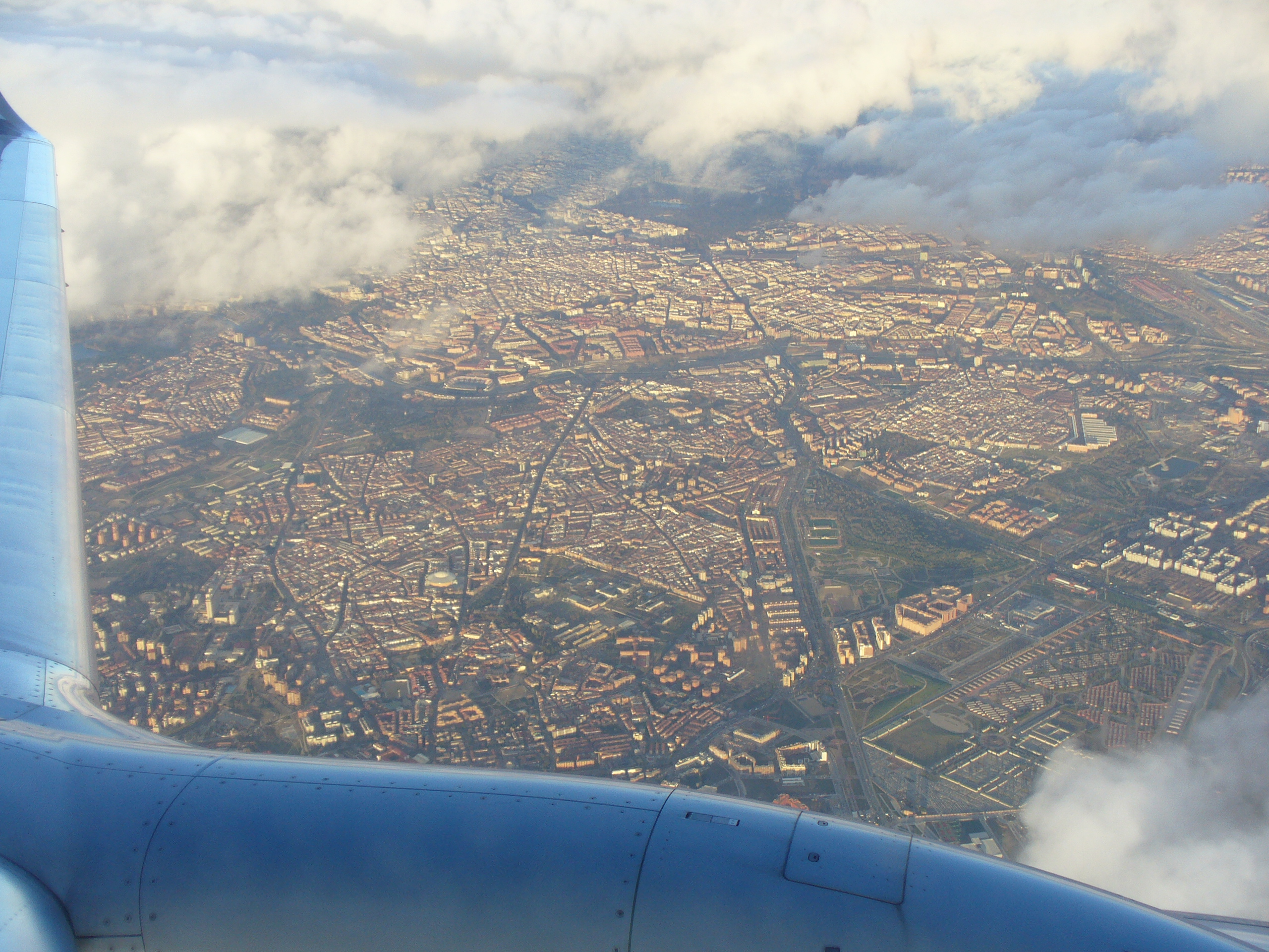 View of Madrid (Spain) from an airliner.